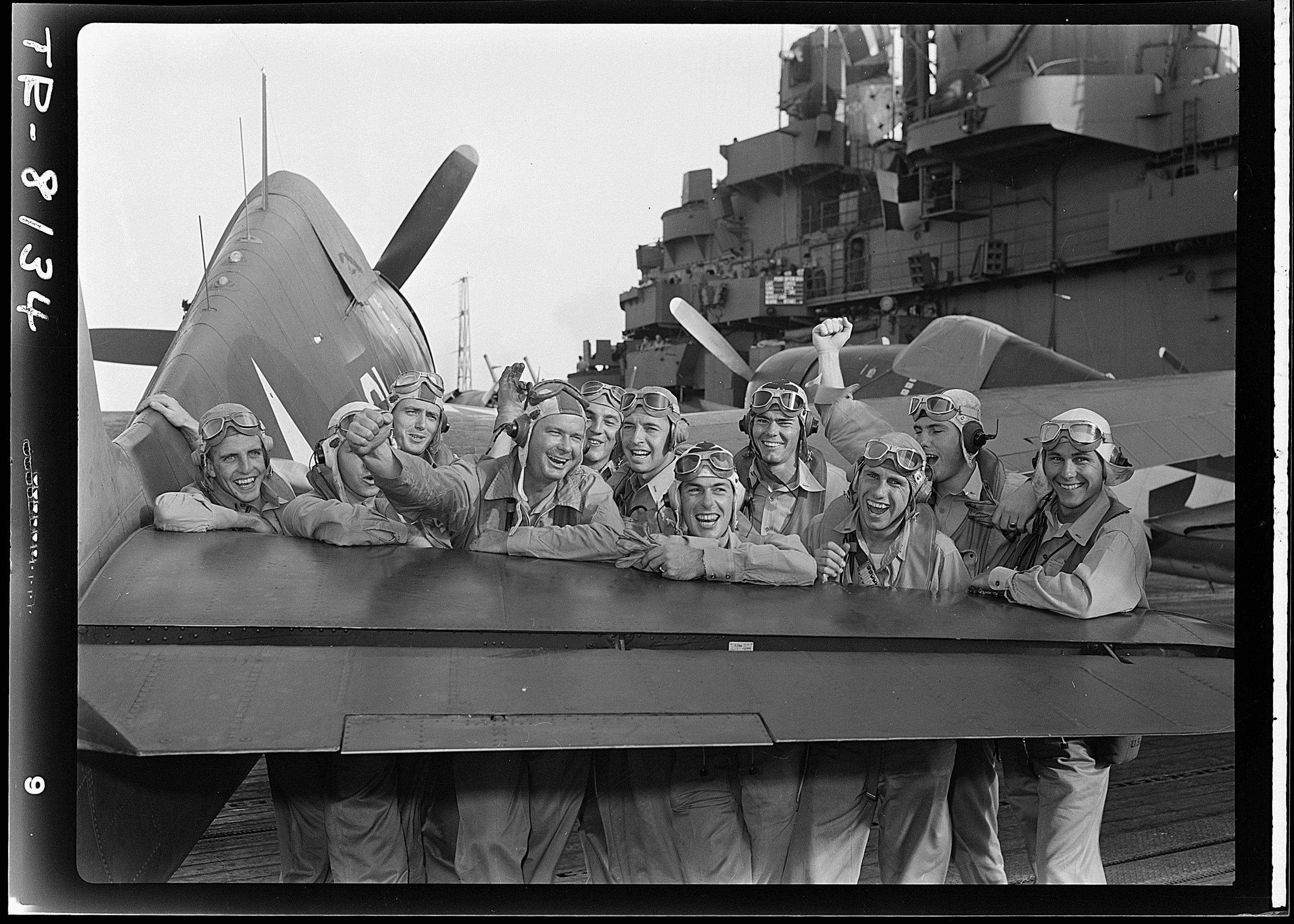 General notes: Use War and Conflict Number 959 when ordering a reproduction or requesting information about this image.